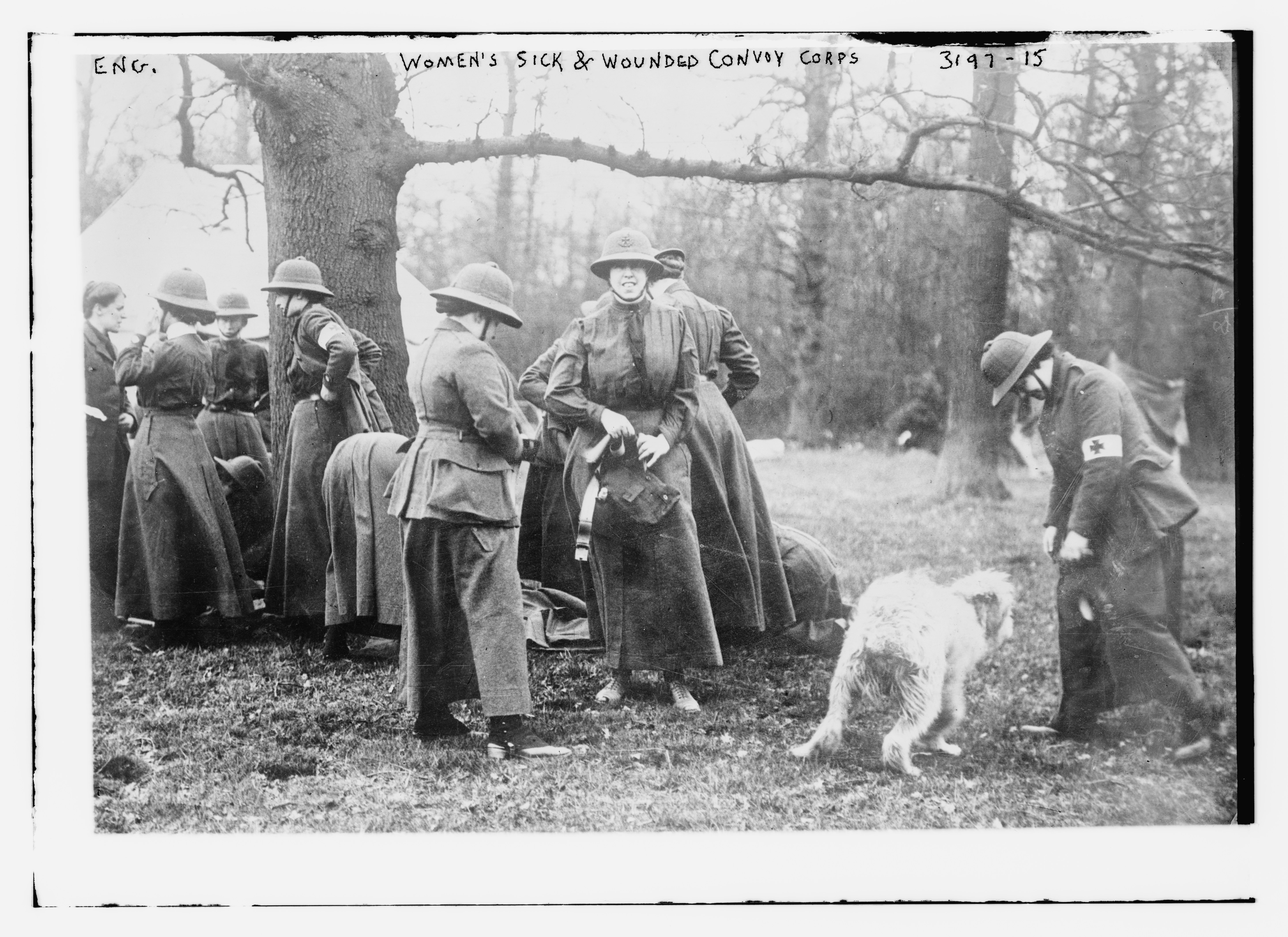 Title: Women's Sick and Wounded Convoy Corps --- Eng. Abstract/medium: 1 negative : glass ; 5 x 7 in. or smaller.